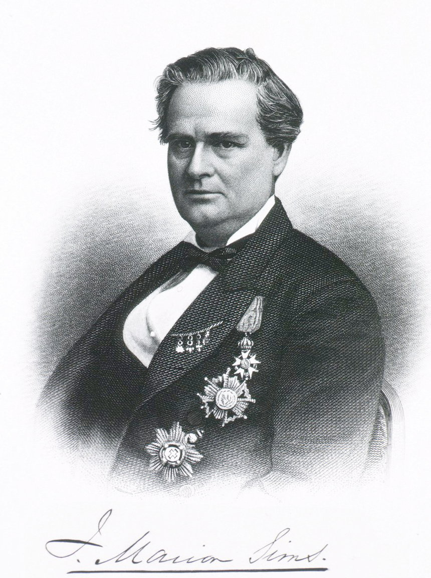 J. M. Sims